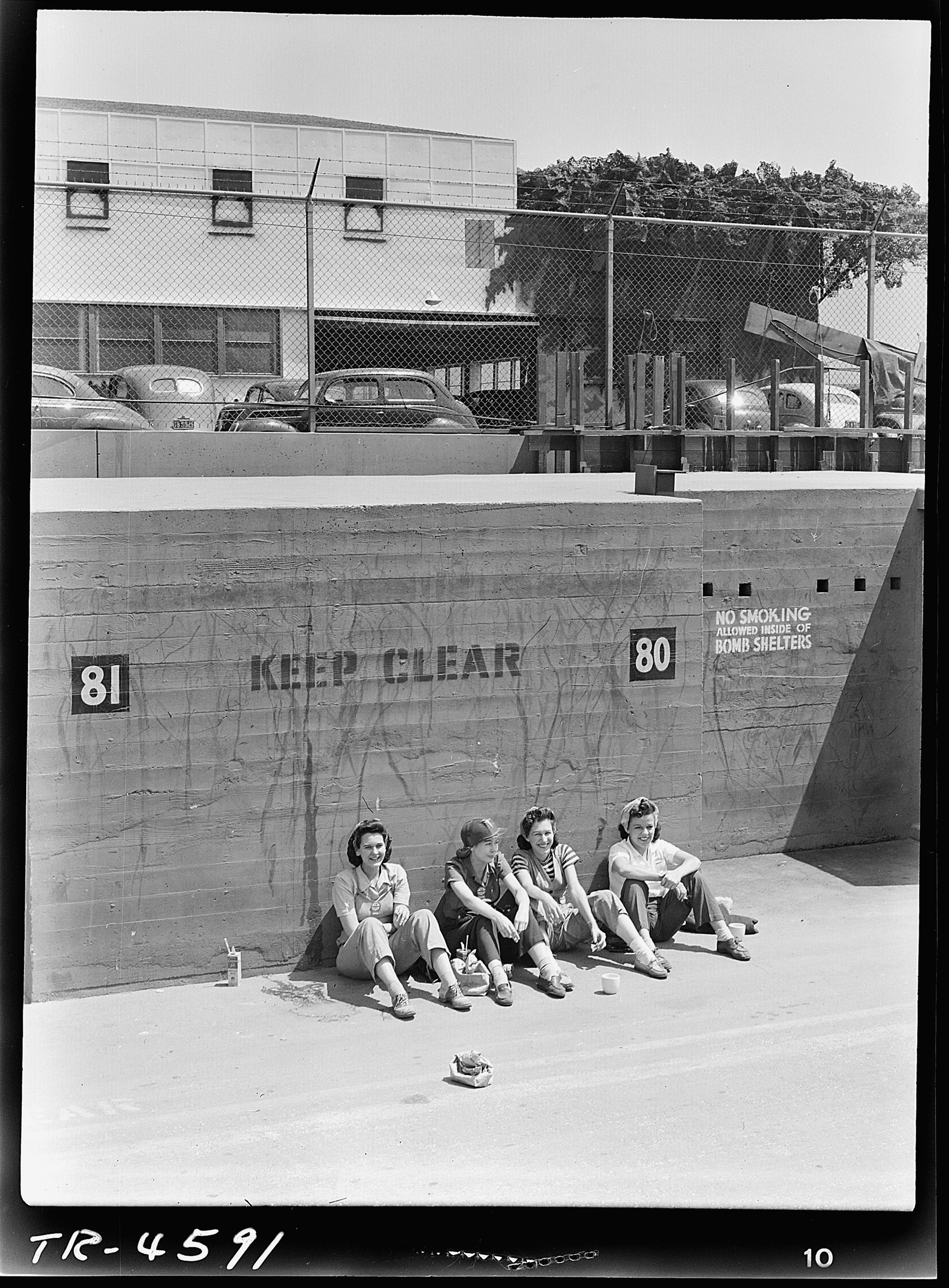 General notes: Use War and Conflict Number 818 when ordering a reproduction or requesting information about this image.